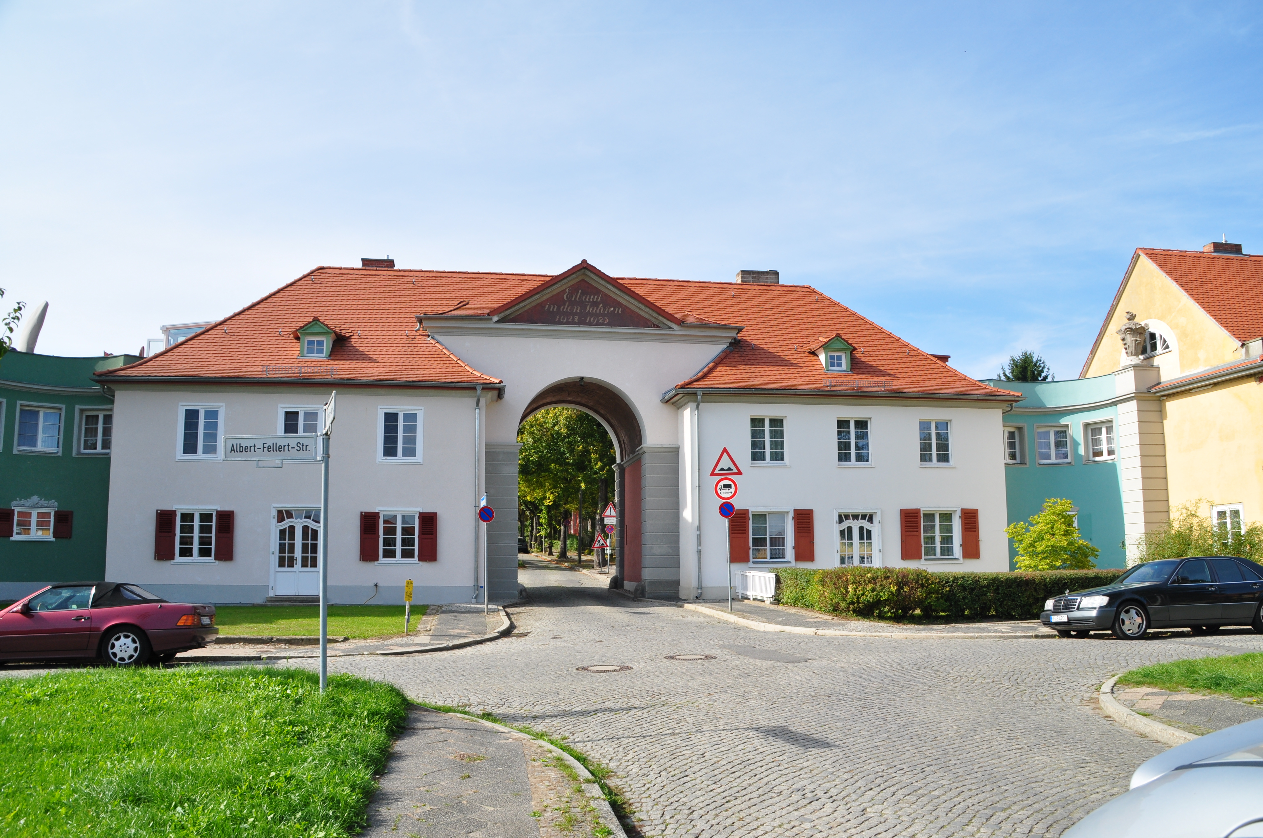 House with archway in Paulinenhof at intersection of Albert-Fellert and Hermann-Boian Strasse